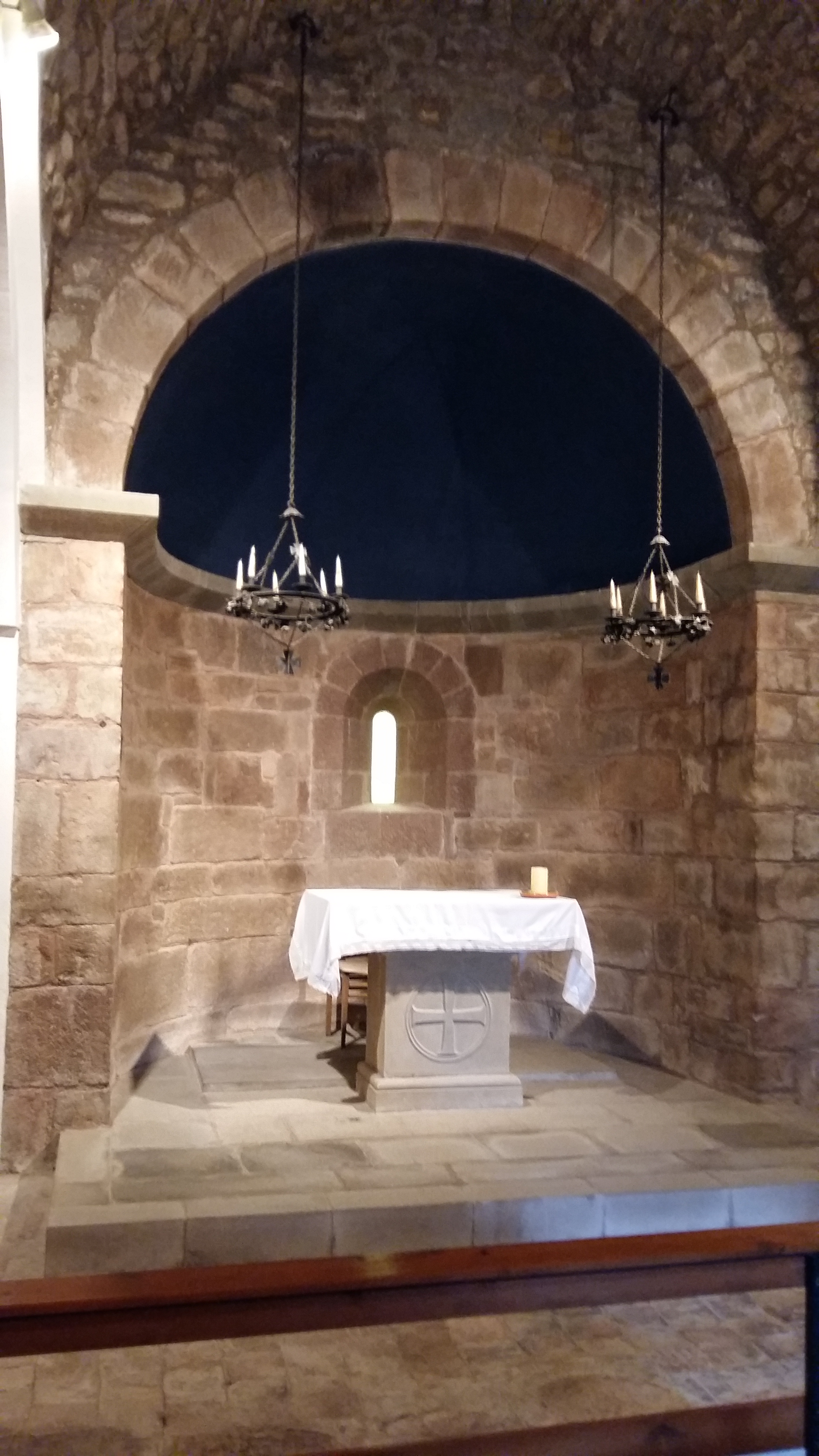 Romanesque Church Sant Andreu de Socarrats at Val de Bianya (Catalunya)